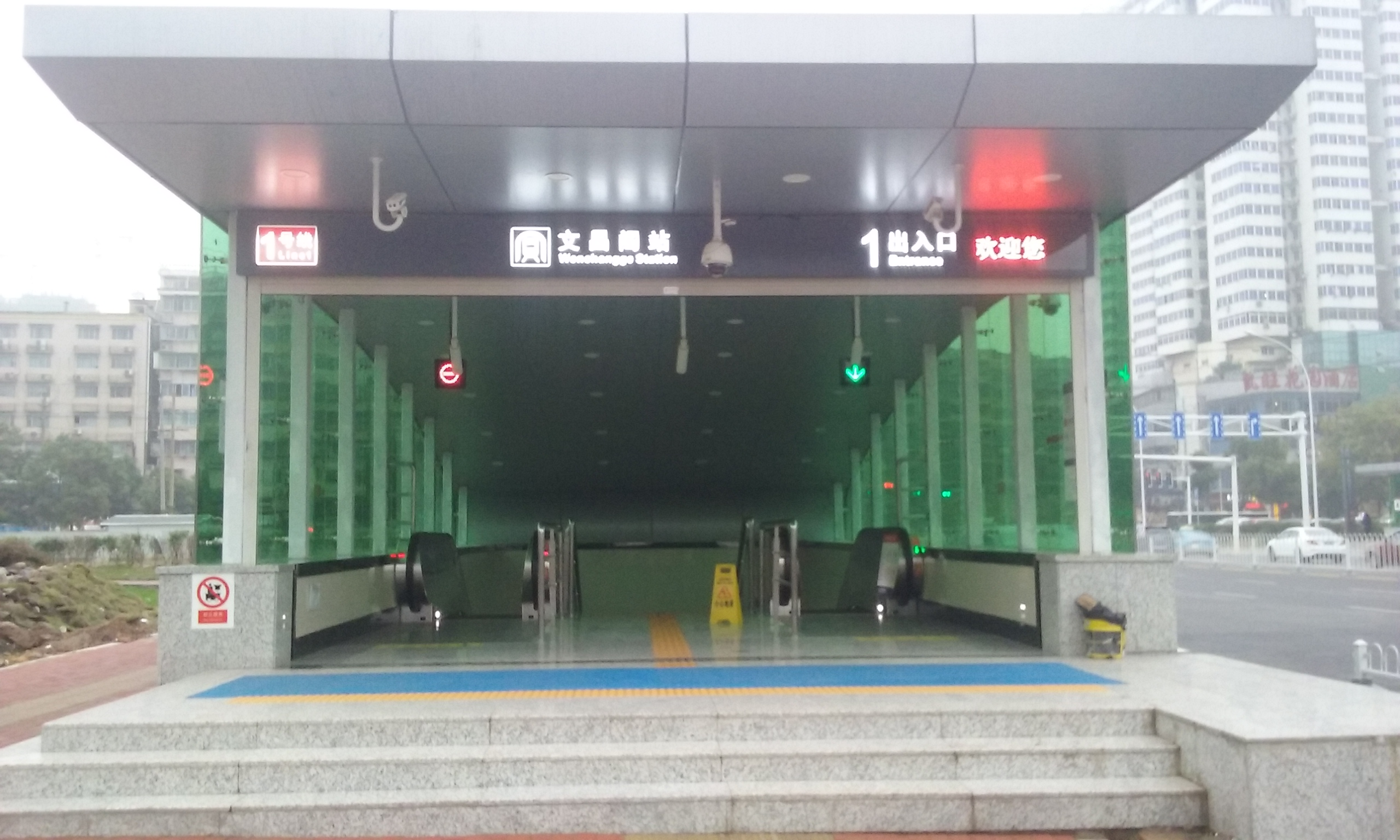 Entrance No.1 of Wenchangge Station